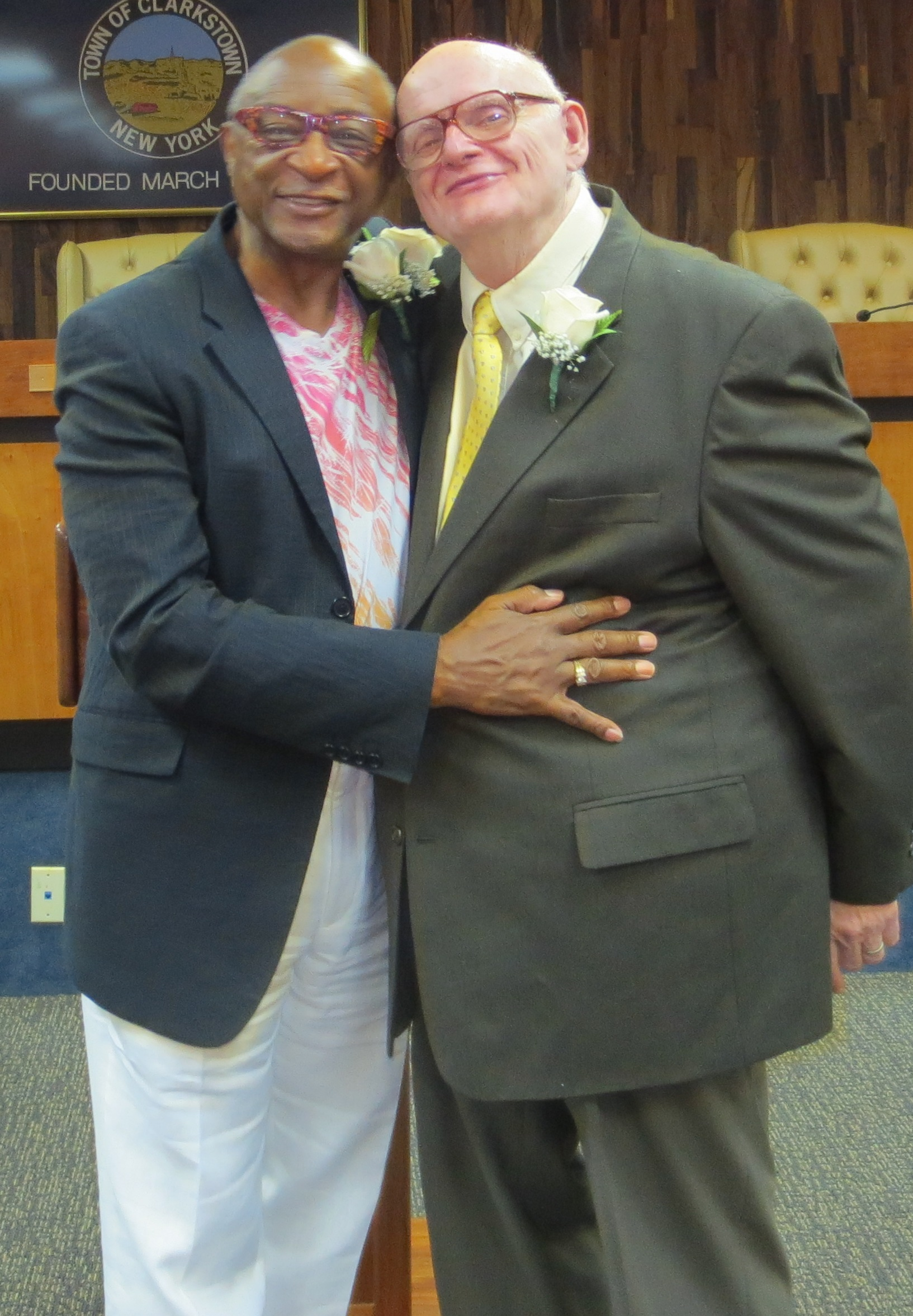 A wedding picture for Louie Crew